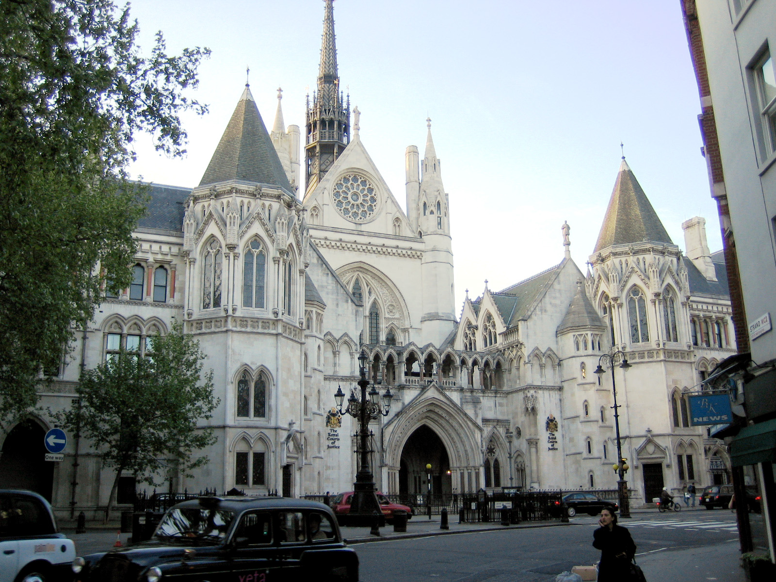 The neo-medieval pile of the Royal Courts of Justice on G.E. Street, The Strand, London.royal courts of justice